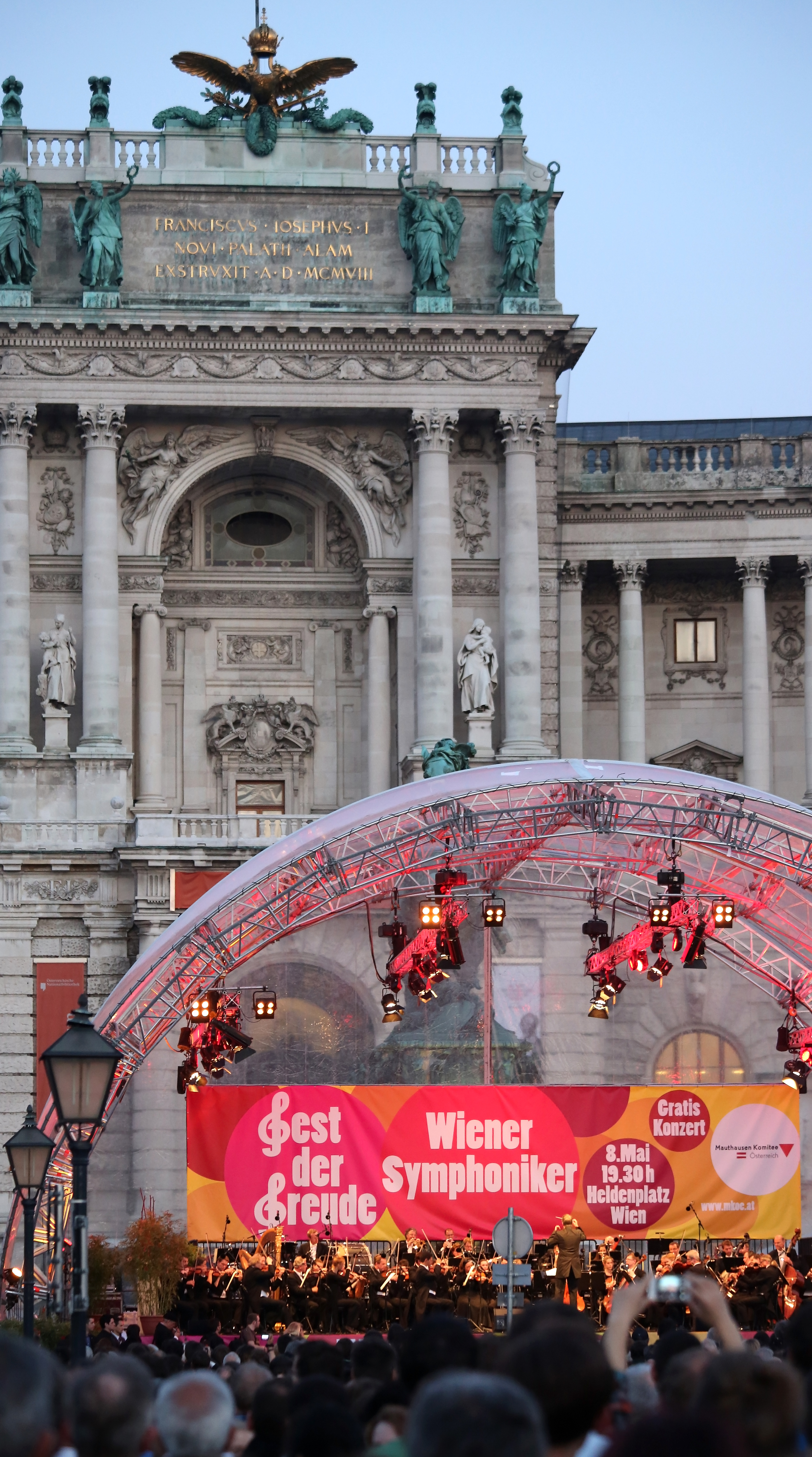 "Fest der Freude" (Festival of Joy) on Heldenplatz in Vienna, Austria. Public concert of the Vienna Symphony with conductor Bertrand de Billy.